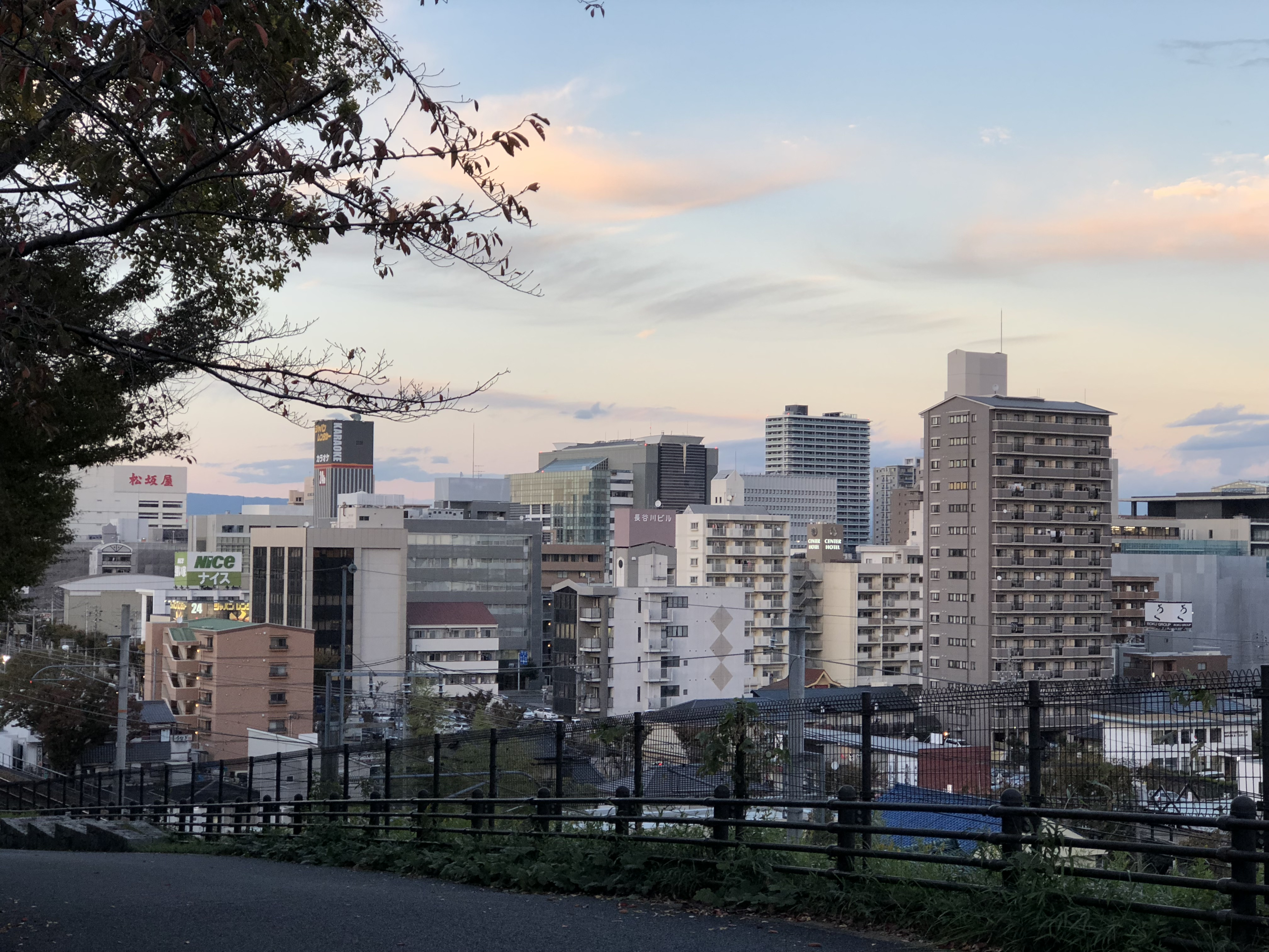 Toyota City Skyline001